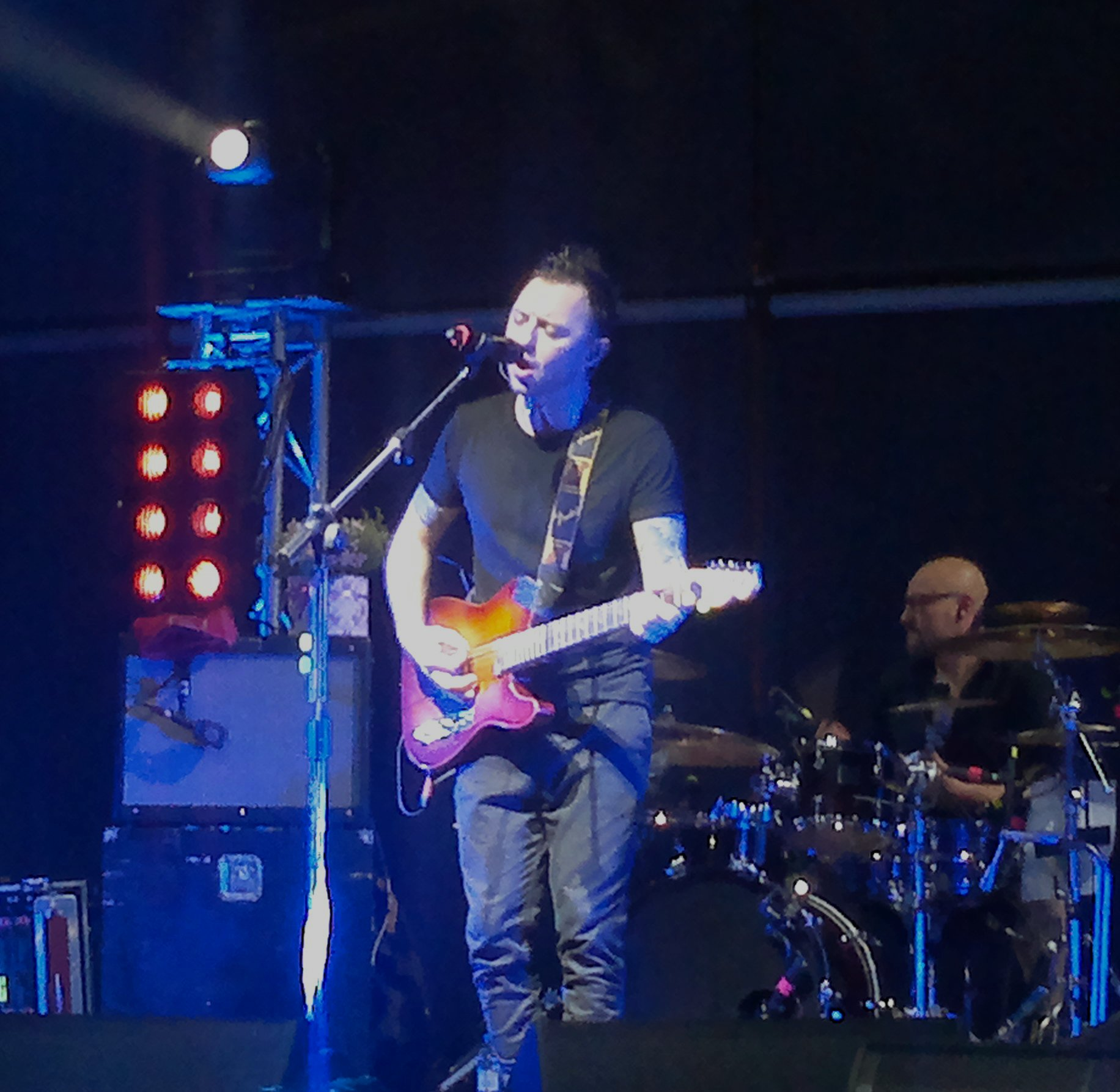 Roman Bilyk in Baku (Azerbaijan). 10 June 2016. Electra Event Hall.